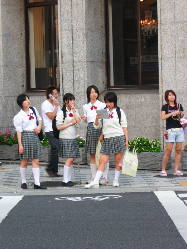 Student girls in Kyoto, Japan.